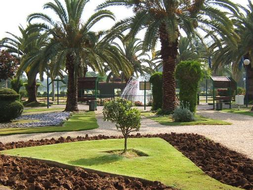 the flower garden in the national park in ramat gan, israel. taken by Eyal72)